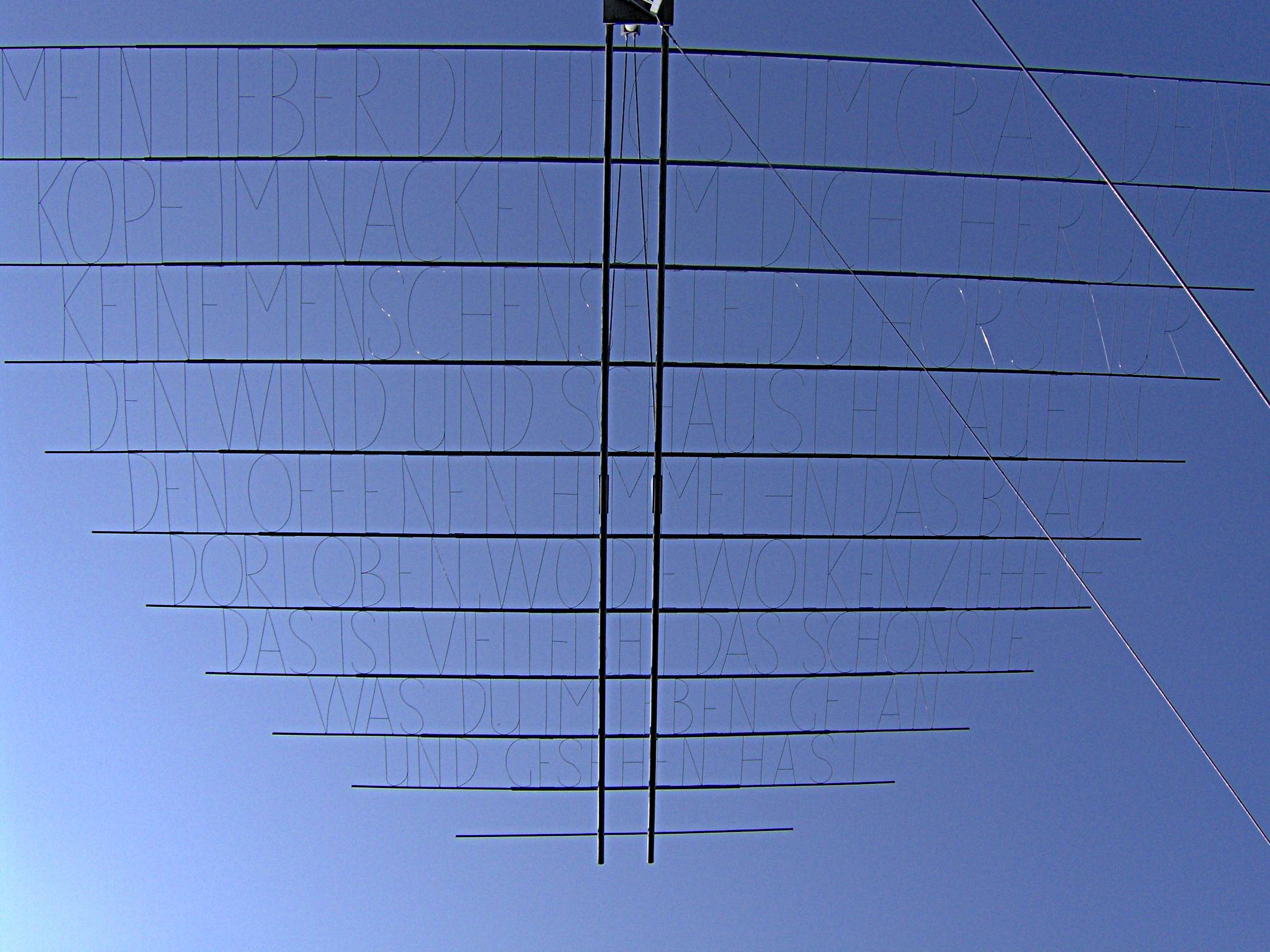 Text of the sculpture Looking Up, Reading the Words in Münster, Germany